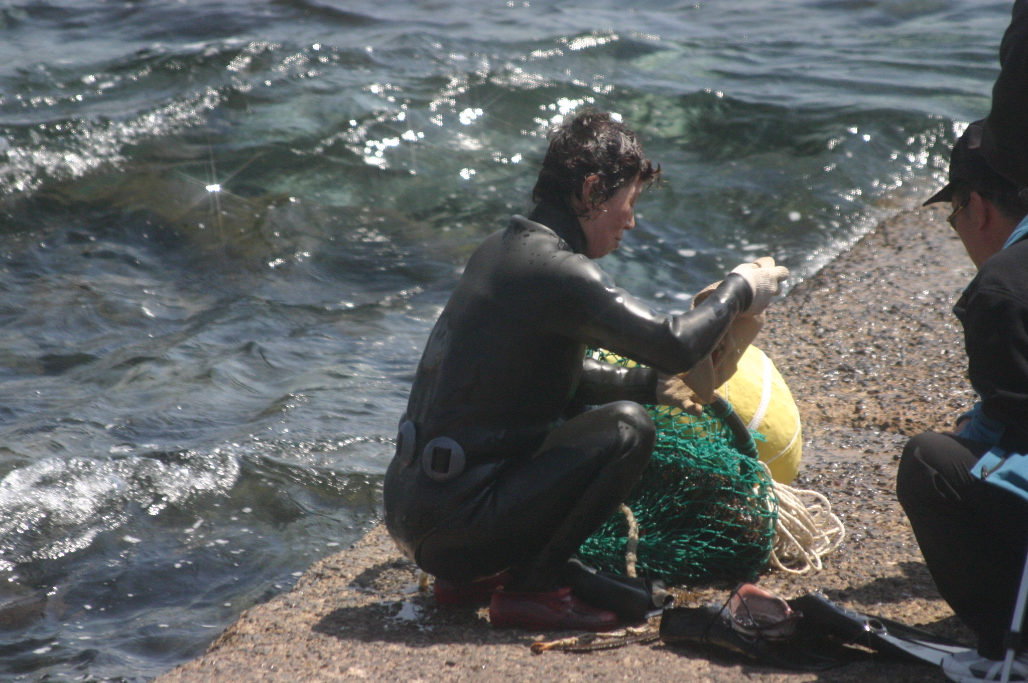 Haenyeo, female diver to catch for living in Korea. Jeju haenyeo are the most famous in the country.